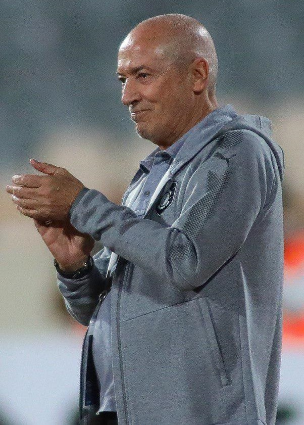 Persepolis FC 2 - 0 Al Sadd SC. Xavi has hung up his boots following the 2019 AFC Champions League match between Al Sadd and Persepolis FC.